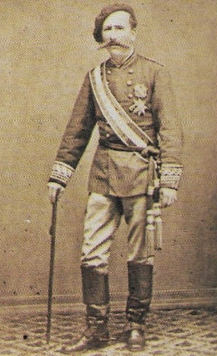 Francisco Savalls